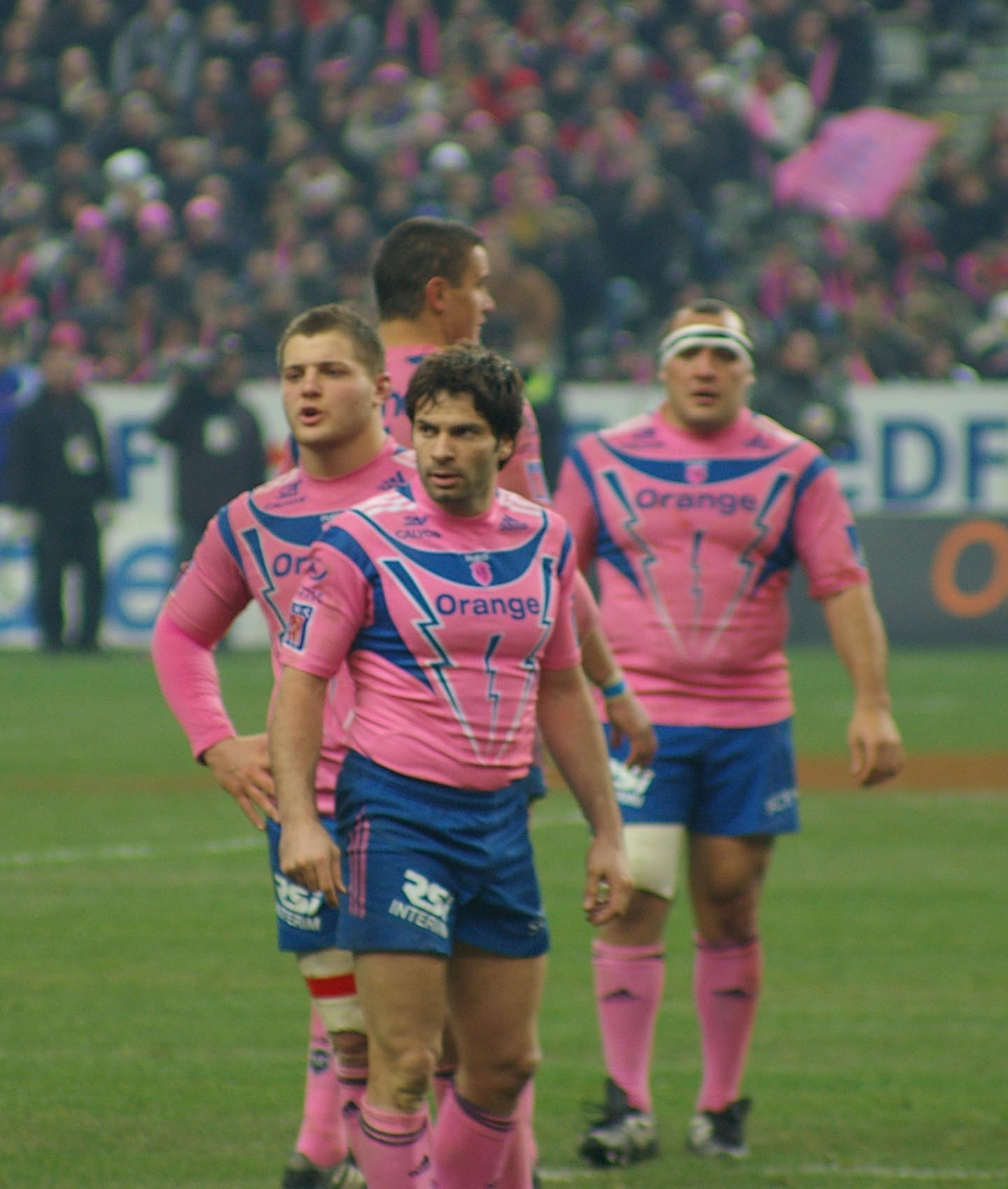 Pictures from the rugby game Stade Français vs Stade toulousain which took place in Stade de France, Paris, 27/01/2007. Chistophe Dominici and teammates Benjamin Kayser and Rodrigo Ronsero behind him